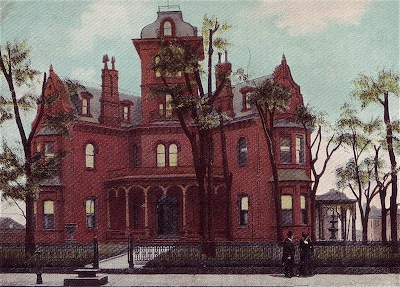 Georgia Governor's Mansion 1870-1923, Peachtree at Cain (now Andrew Young Intl. Blvd.), Downtown Atlanta